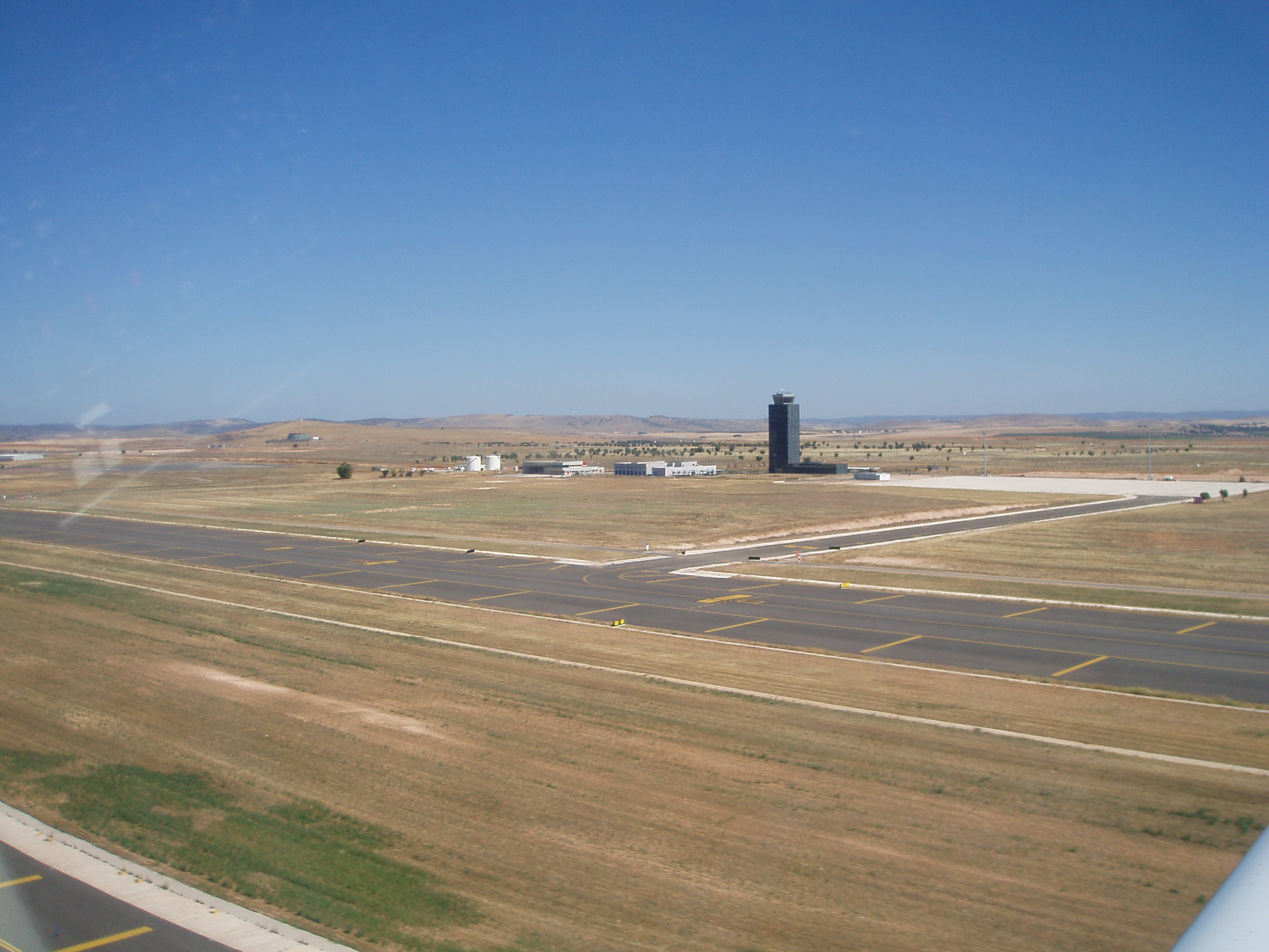 Airport Ciudad Real LERL "Don Quijote"